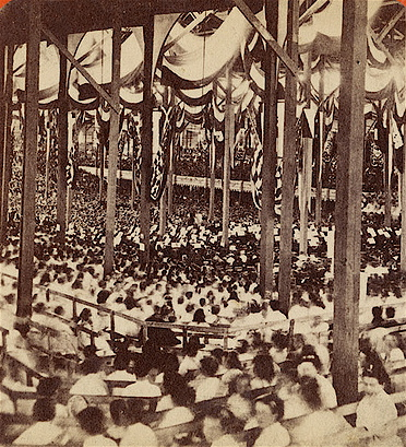 Accession No.: 06_11_000161 Title: Great Peace Jubilee, Boston, June 1869 Creator: Towle, S. (Simon) Local Subject: Events Public Buildings Subject: Boston (Mass.) National Peace Jubilee and Musical Festival (1869 : Boston, Mass.) Publisher: John P. Soule Pub. Date: c1869 Date of Creation: 1869 Description: S. Towle, copyright holder Format: Derived from stereograph BPL Department: Print